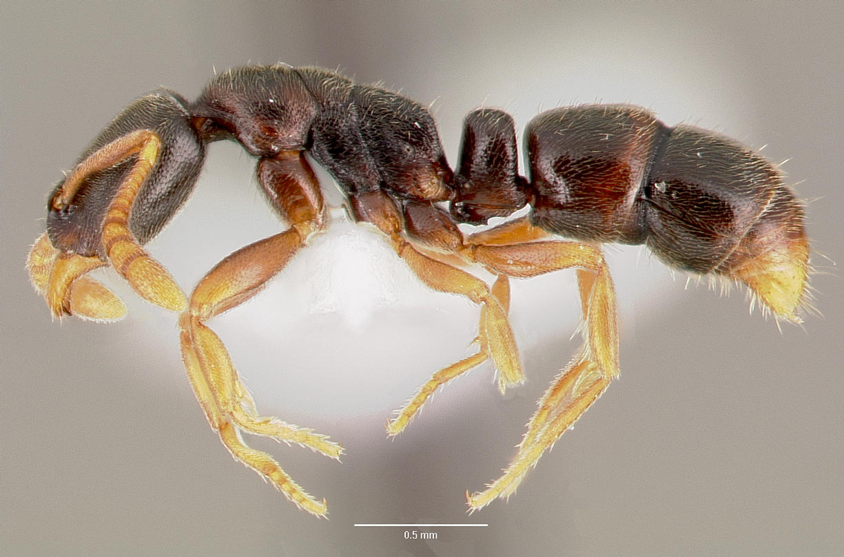 Profile view of ant Ponera pennsylvanica specimen casent0003322.